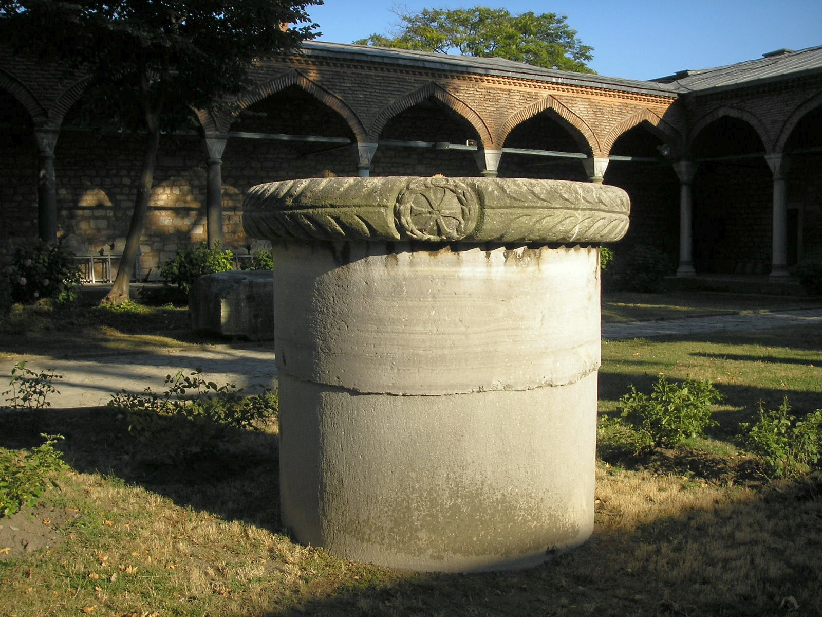 Remains of byzantine colums on the eastern side of the Second Court bordering the palace kitchens, in the Topkapi Palace in Istanbul.